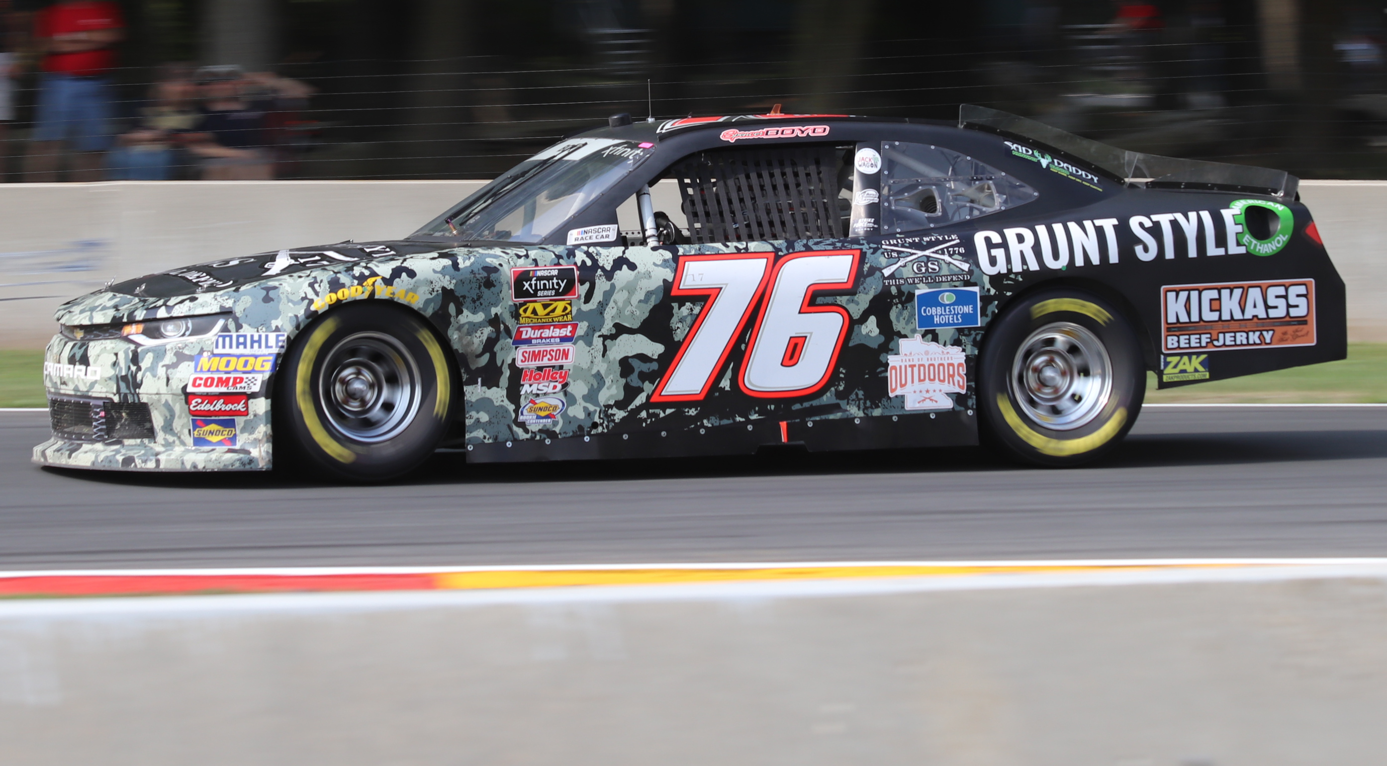 The Chevrolet Camaro of Spencer Boyd at the NASCAR Xfinity Series Johnsonville 180.